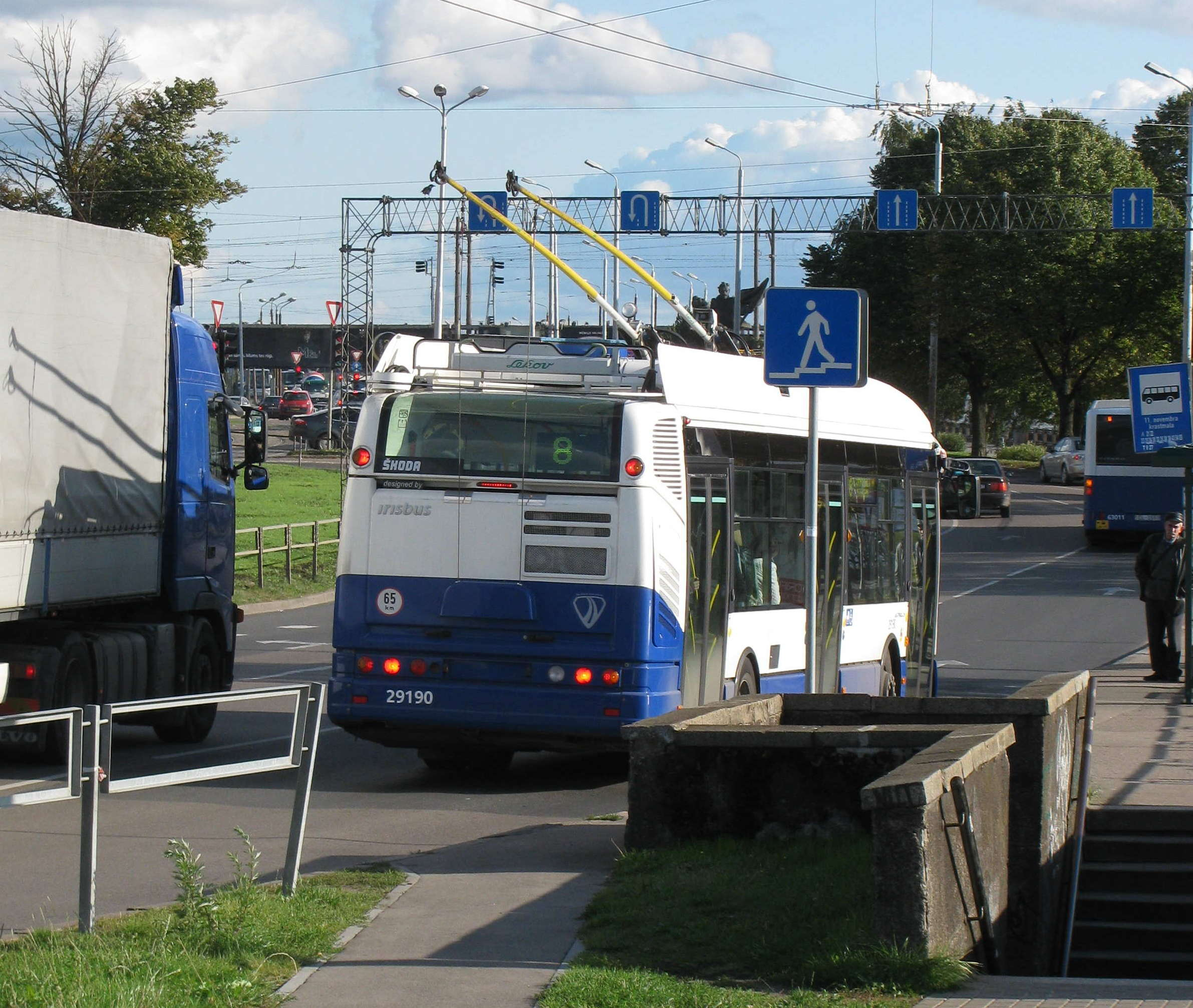 Škoda 24Tr in Riga